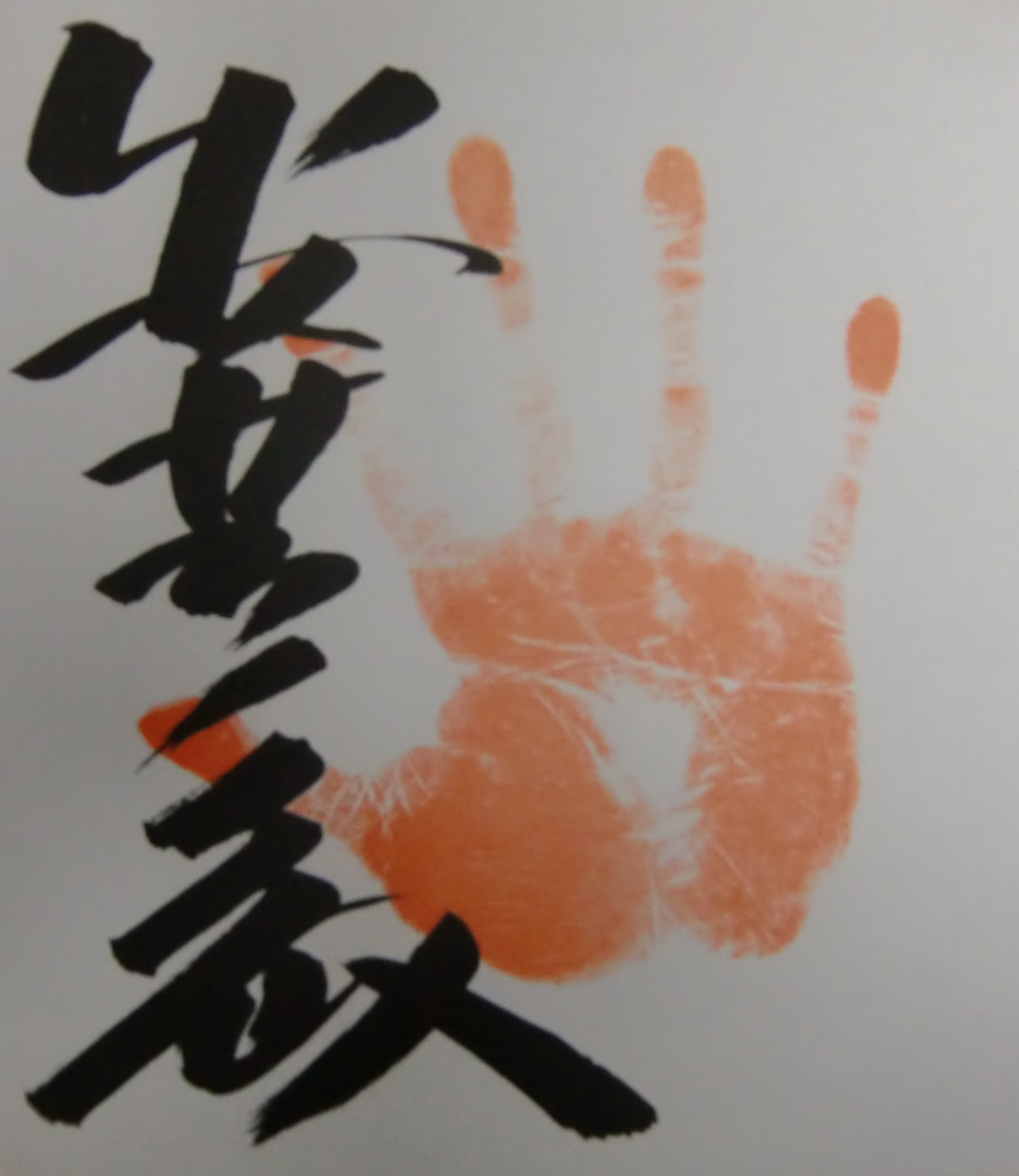 photo taken of a hand print of the wrestler Akinoshima that is owned by myself